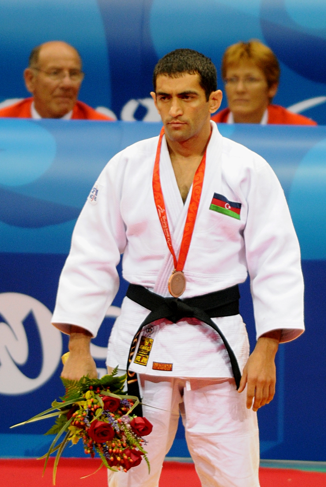 Ramin Ibragimov at 2008 Paralympics